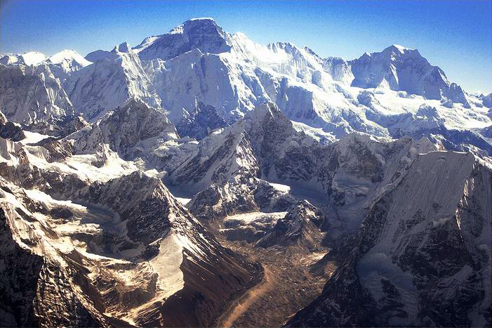 Cho Oyu, Nepal